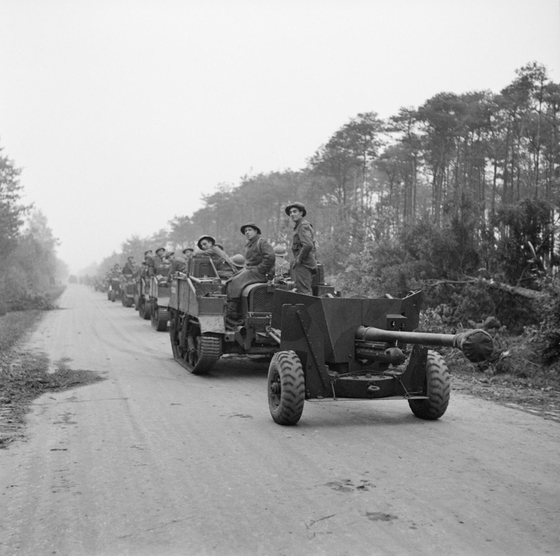 Carriers and 6-pdr anti-tank guns of the 2nd Gordon Highlanders, 15th (Scottish) Division, during the assault on Tilburg, Holland, 28 October 1944. Carriers and 6-pdr anti-tank guns of the 2nd Gordon Highlanders, 15th (Scottish) Division, during the assault on Tilburg, 28 October 1944.